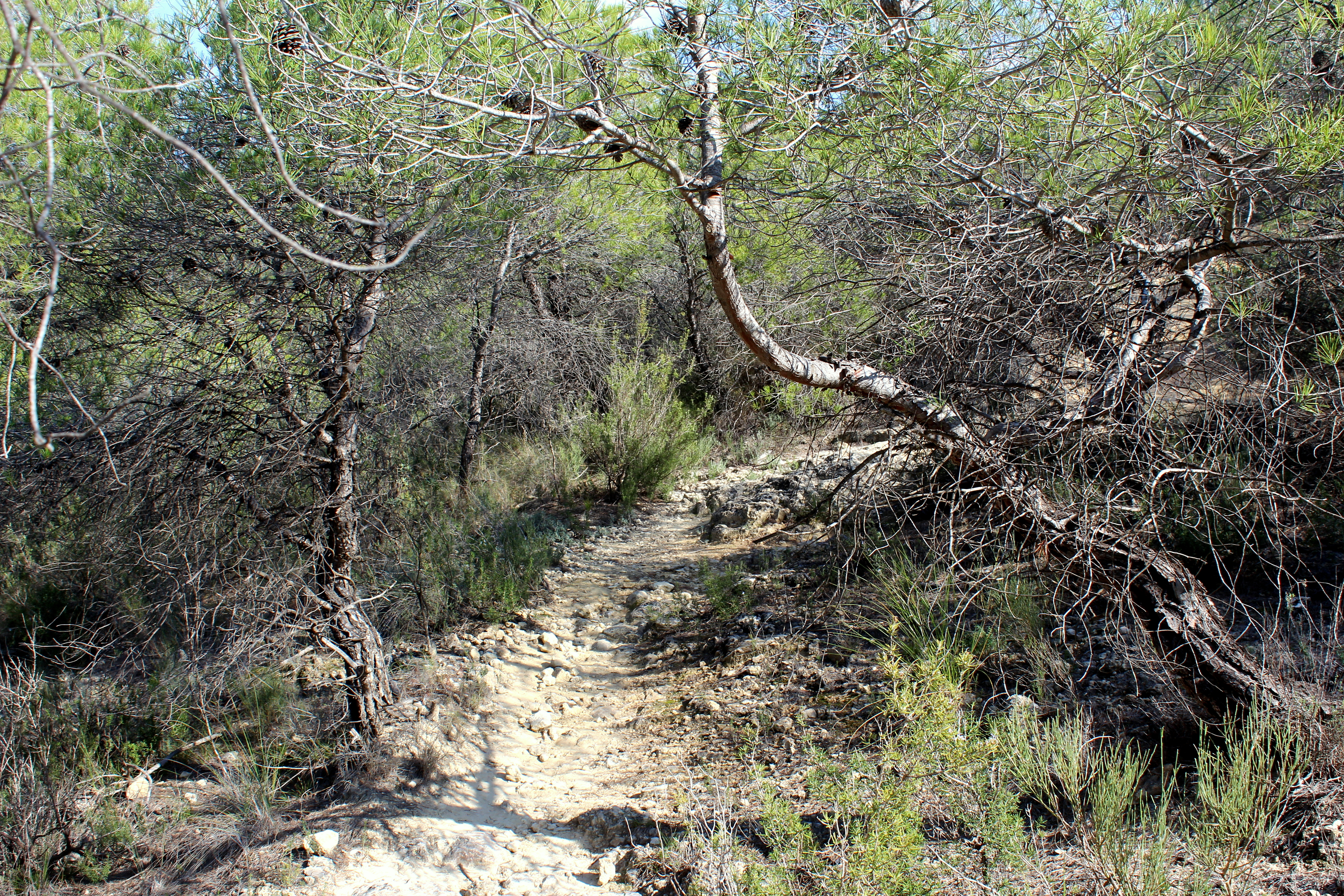 Footpath PR-MU-69 at a point about 1 km south-east of El Berro and 7.5 km north-east of Alhama de Murcia in the Sierra Espuña. At this point the path is winding down a north-facing slope at an altitude of about 600 metres above sea level.